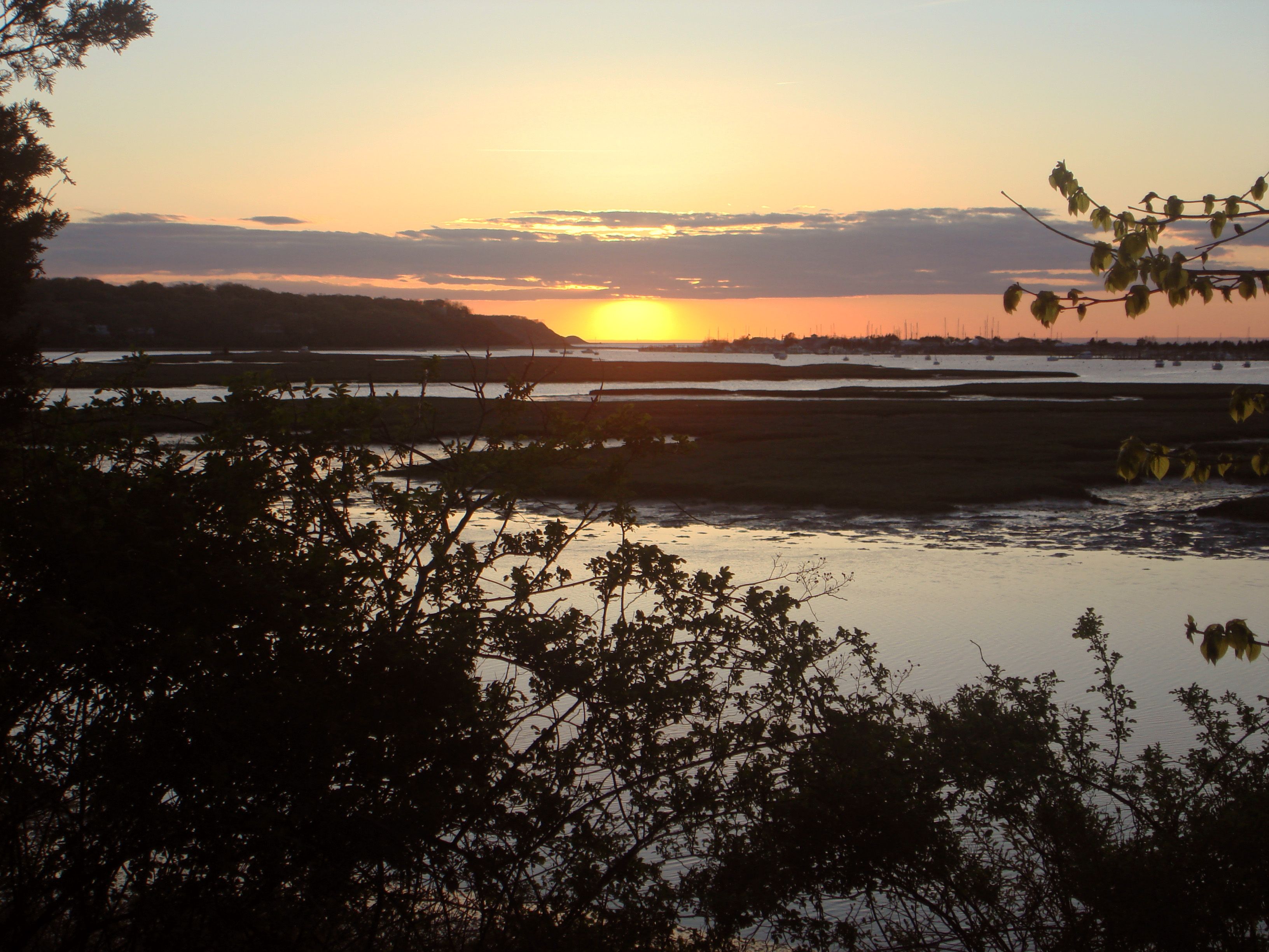 Sunset over Mount Sinia Harbor in Mount Sinai.